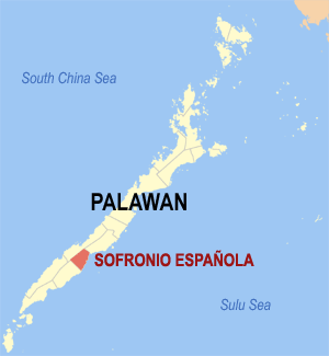 Map of Palawan showing the location of Sofronio Española